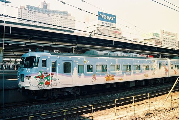 A JR East 185 series EMU set in special winter "Ful-Ful" livery at Shinagawa Station in Tokyo